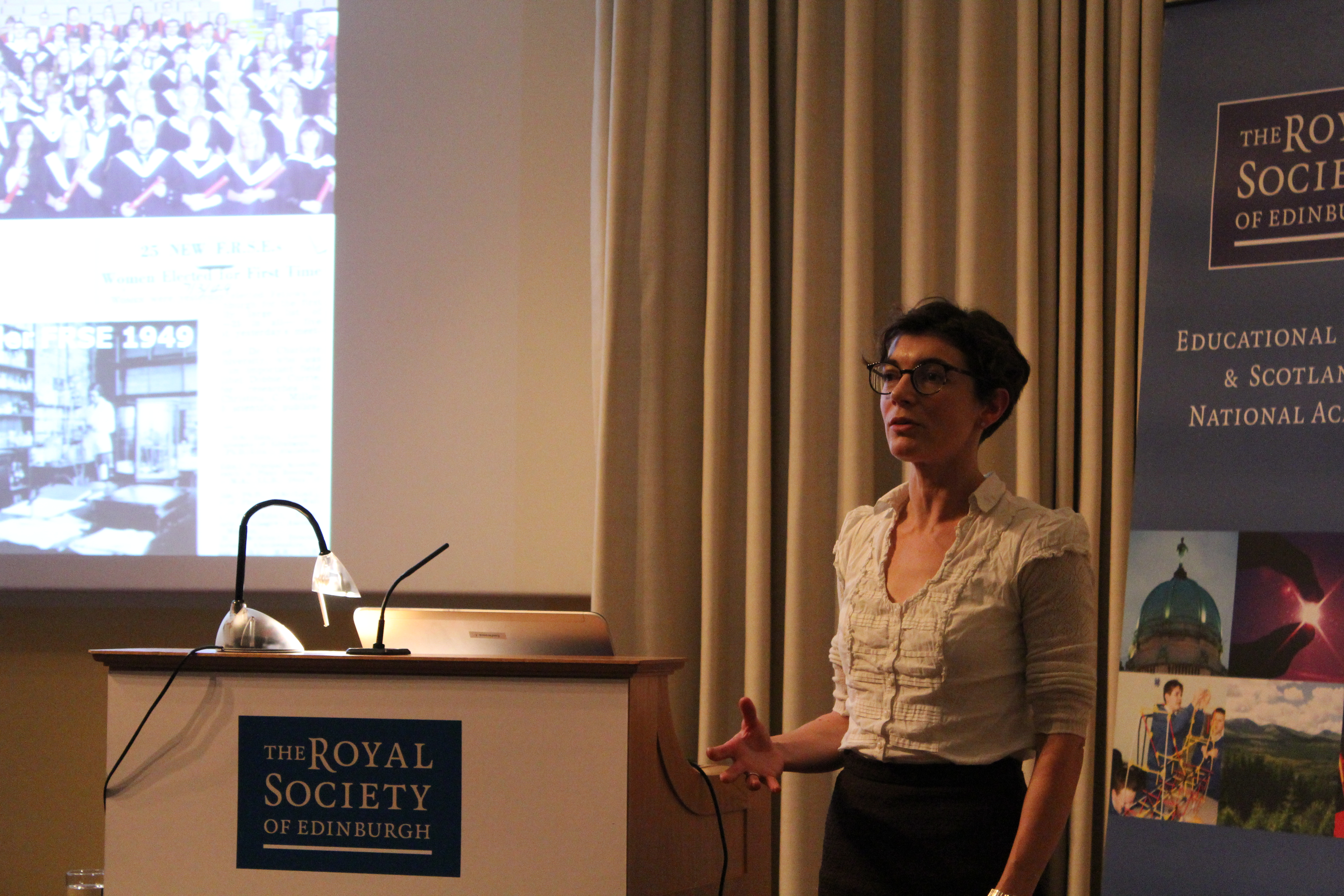 Women in Science event co delivered by Wikimedia UK and MRC From the event